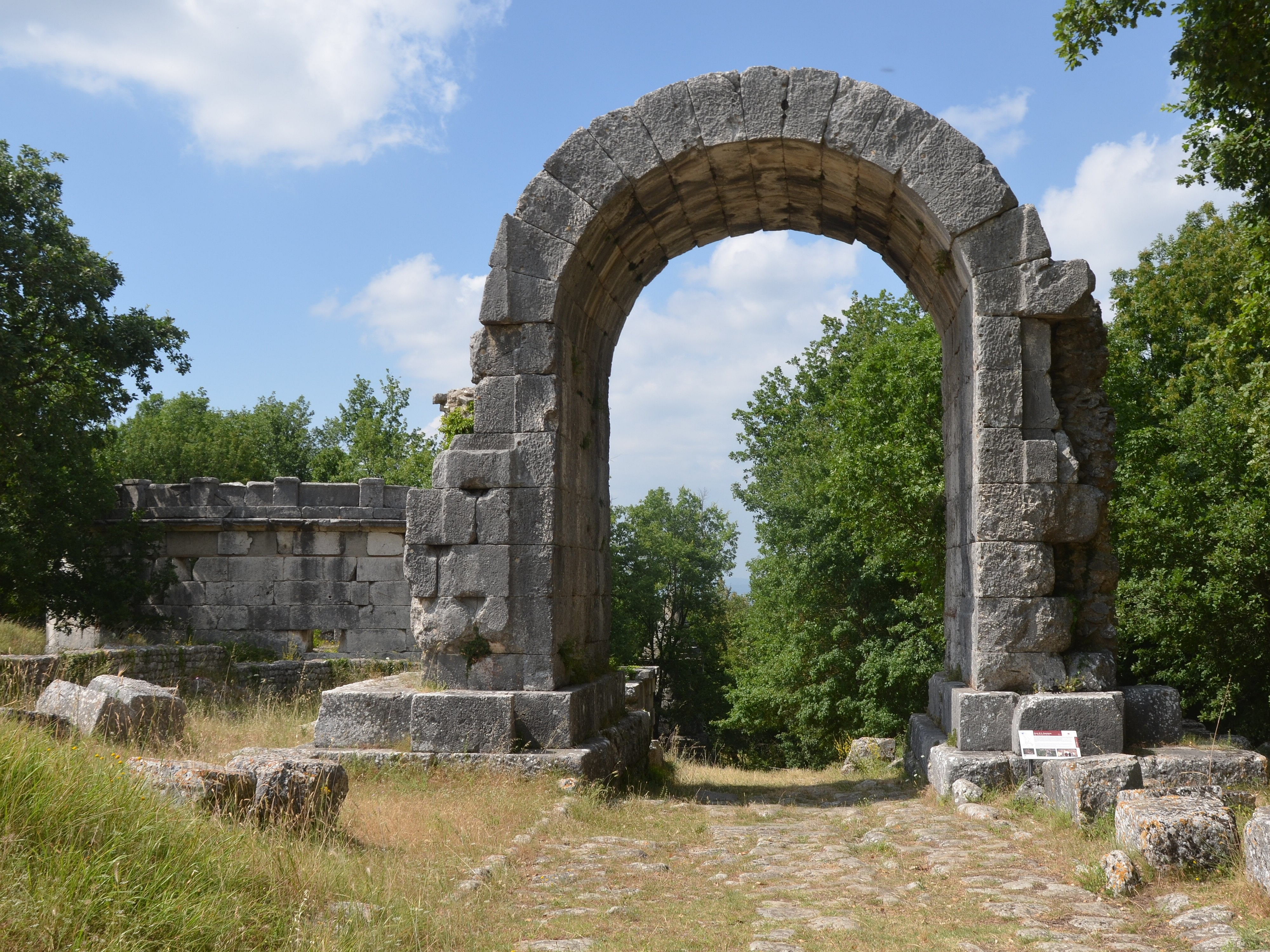 The arch was originally a three fornix arch (the two lateral minor ones have collapsed). It preserves remains of recovering and the architectonic decoration. The arch, like the most monuments of the town, is dated back to the period when Augustus renovated the via Flaminia.